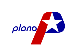 The official city flag of Plano, Texas. In 1981, the Plano City Council officially adopted the logo that is featured on the flag, which was based on a design submitted via a community contest by James R. "Jim" Wainner, a professional artist and graphic designer from Plano. The flag is a 5:7-proportioned flag with a large stylized lowercase "p" set in italics, with a white five-pointed star making the eye of the letter, dark red stem and tail, and very dark blue bowl. This is at the fly side and on the same baseline the word "plano" set in lowercase Bauhaus font. Additional information about the flag can be found here.